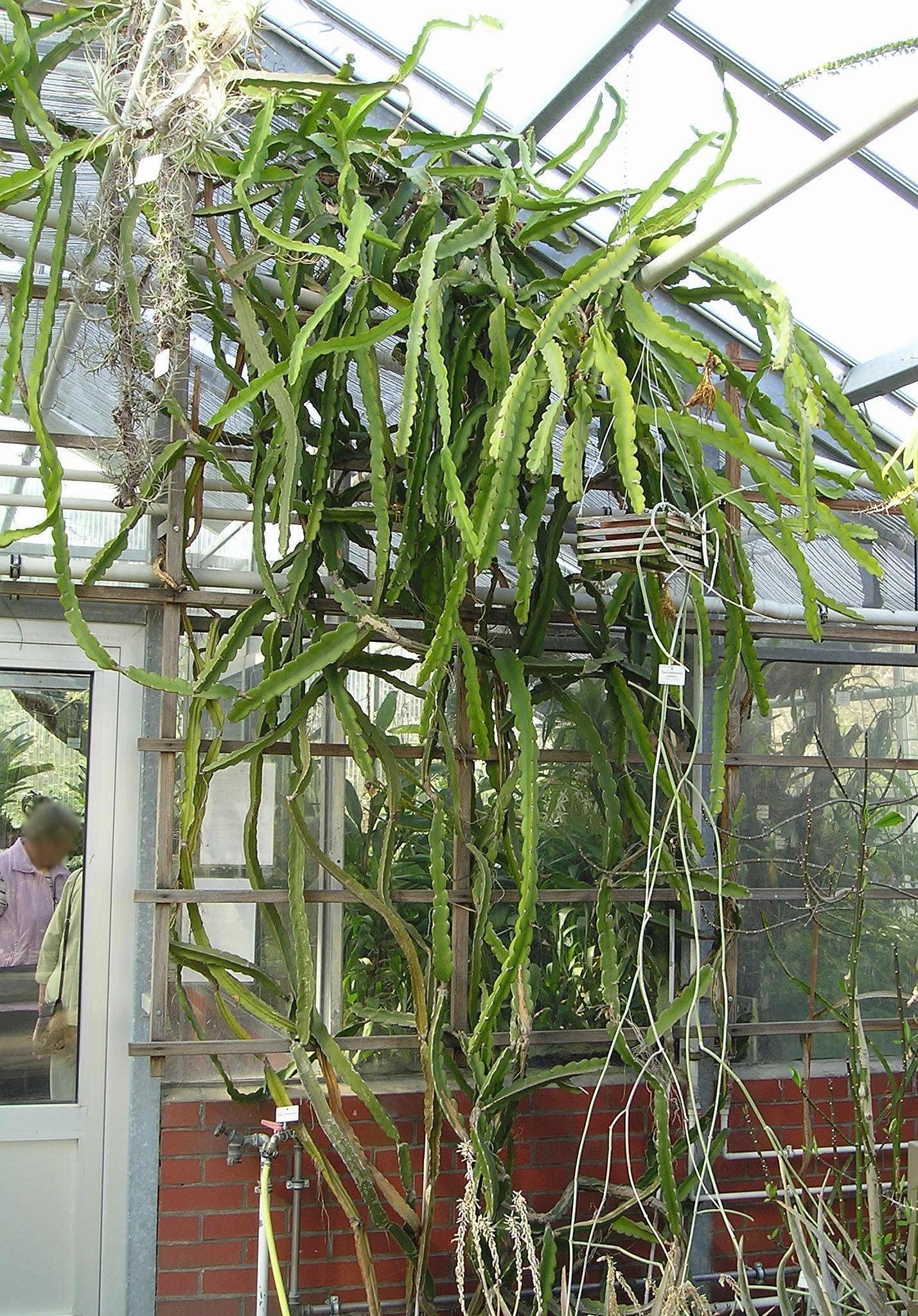 Hylocereus ocamponis Botanischer Garten TU Dresden, April 2009 Creative Commons Licence BY 2.0 Quellenangabe / Credit: Photo by Maja Dumat